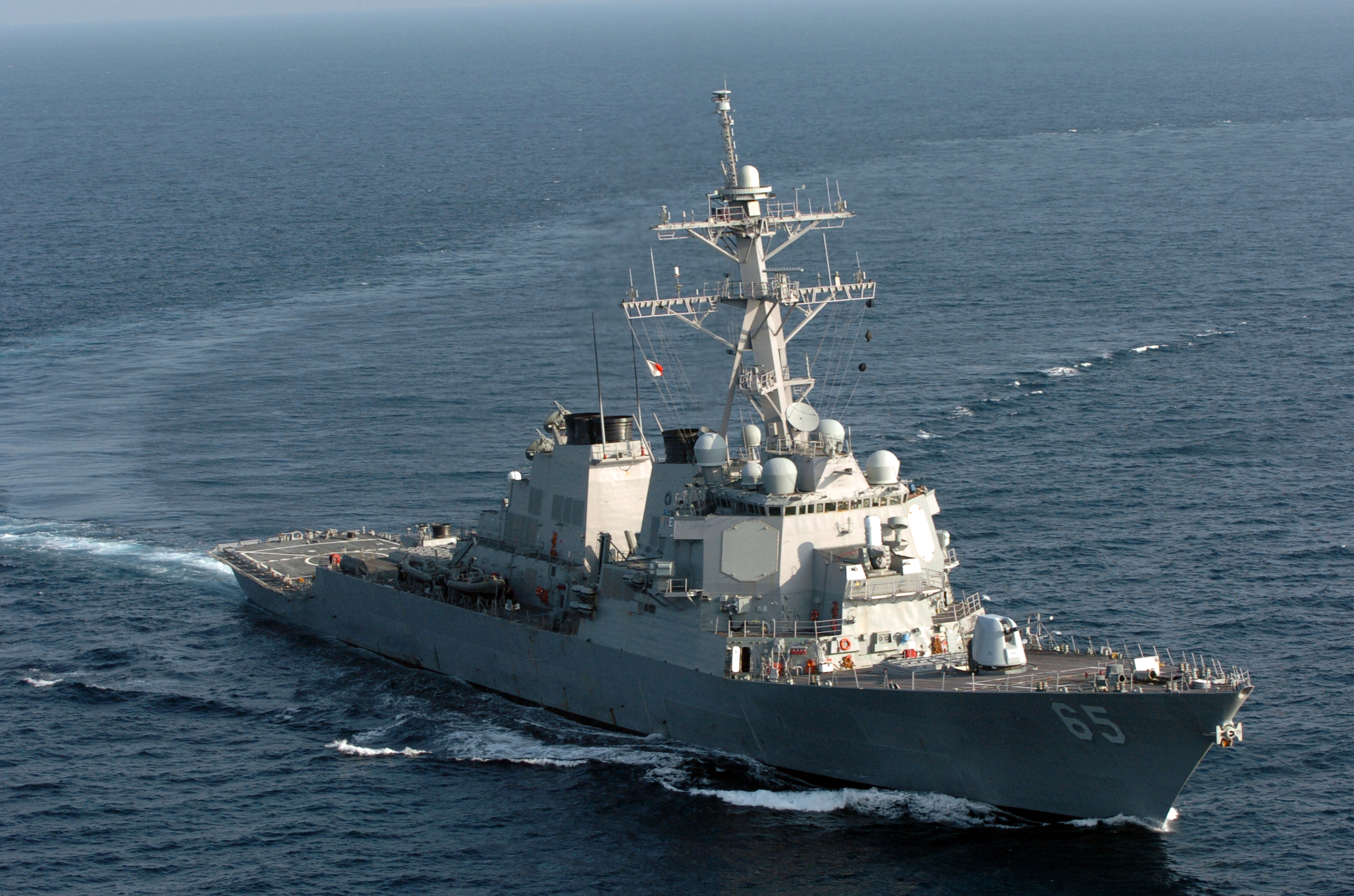 Andaman Sea (Jan. 19, 2005) — The guided missile destroyer USS Benfold (DDG-65) maneuvers in the Andaman Sea off the coast of the island of Sumatra, Indonesia. Navy helicopters are using Benfold as a refueling station for relief flights into Sumatra, Indonesia. Benfold is assigned to the USS Abraham Lincoln (CVN 72) Carrier Strike Group, currently operating in the Indian Ocean off the waters of Indonesia and Thailand in support of Operation Unified Assistance.